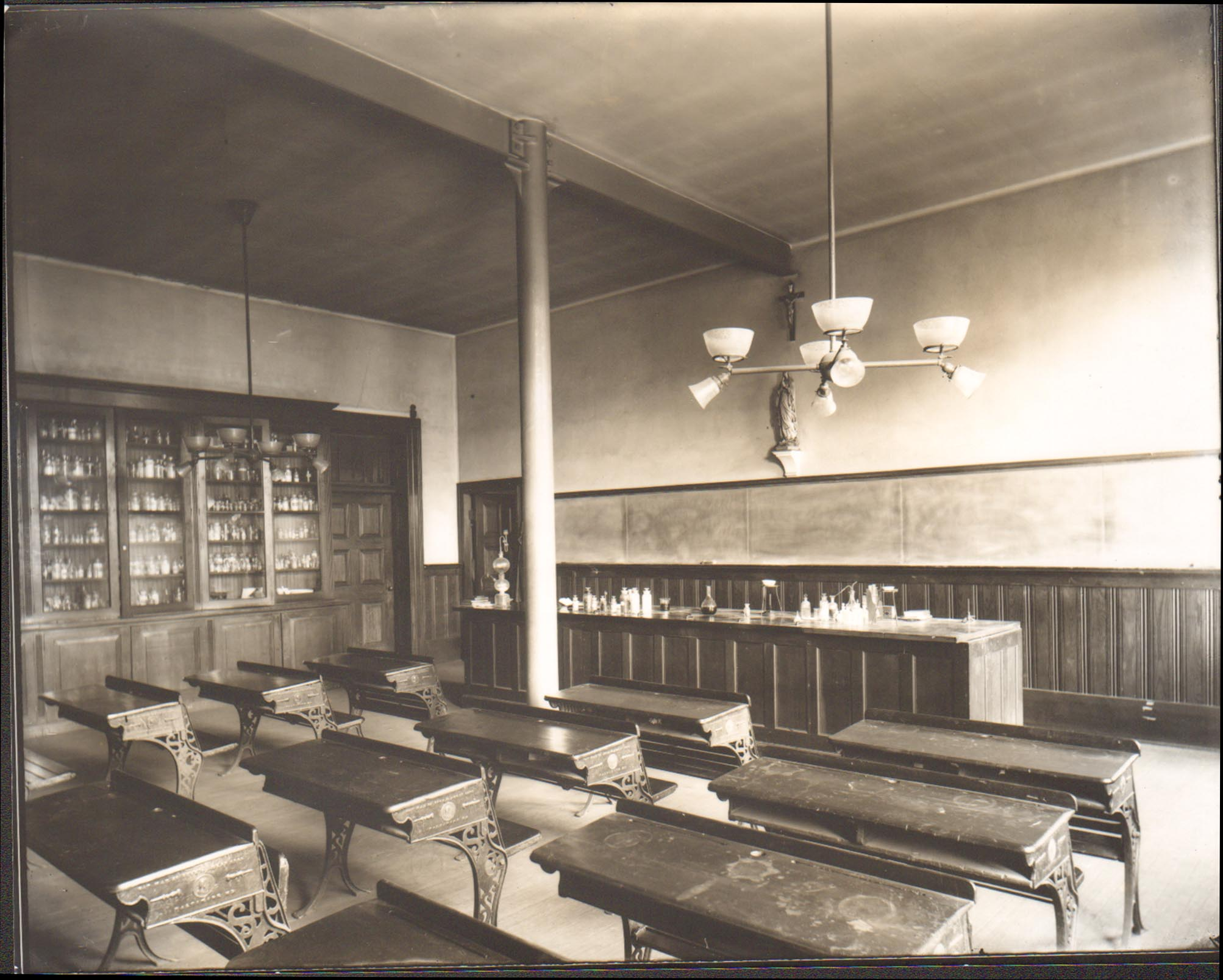 image of a chemistry lab at the Calvert St. Loyola College